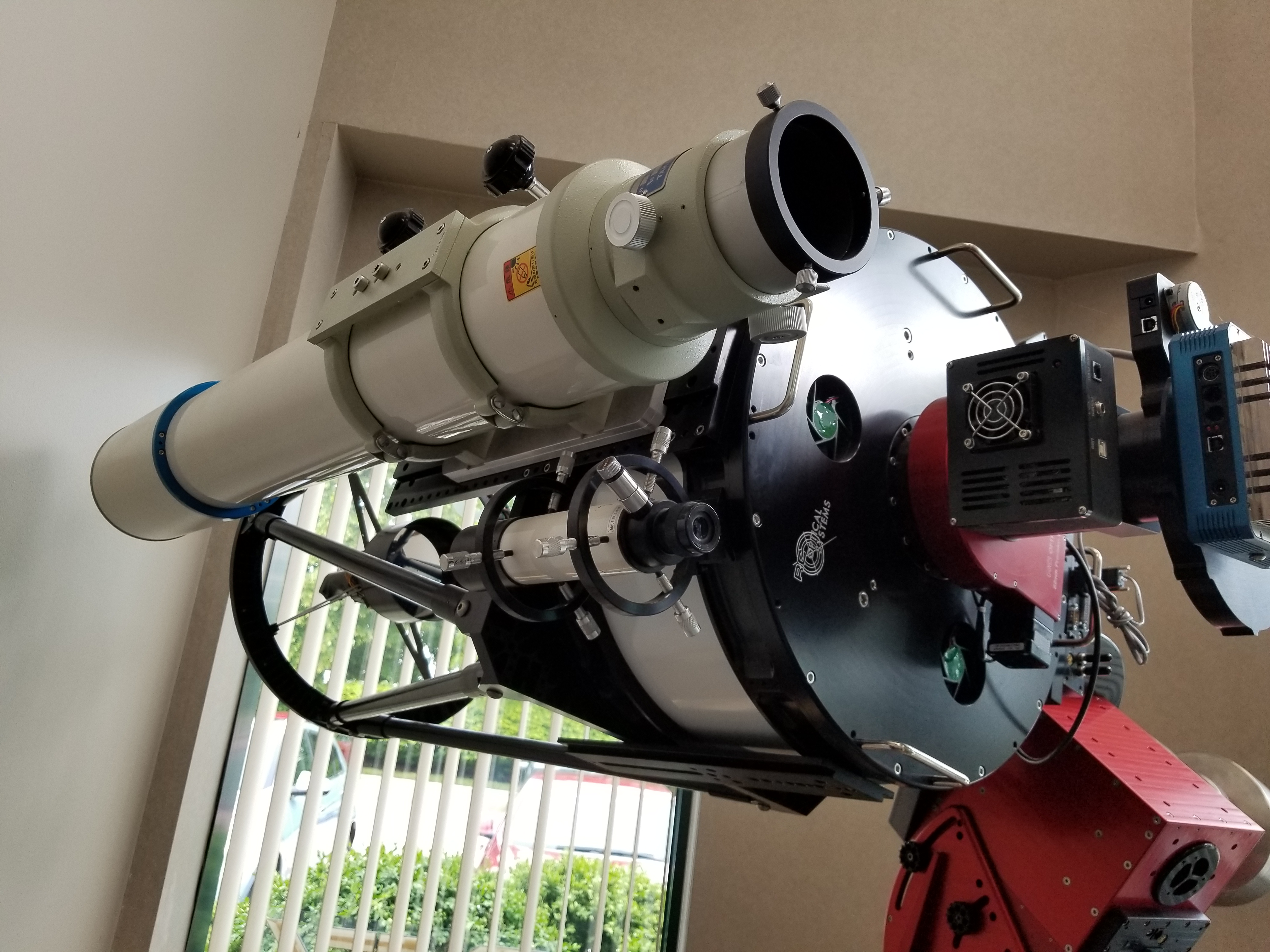 RC Optical Systems 20 inch Truss Ritchey-Chrétien telescope with various attachments.